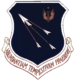 4505th Air Refueling Wing emblem (USAF) Found at Public Domain